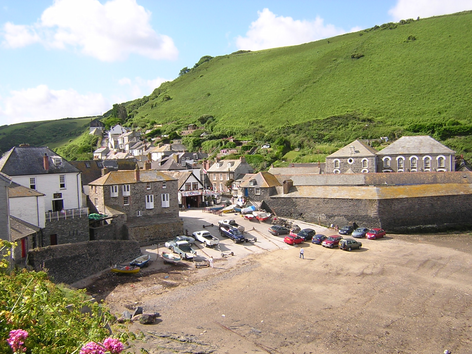 I took this photo myself when on holiday